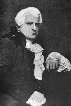 Photograph of Antonio Scotti as Baron Scarpia in Giacomo Puccini's Tosca